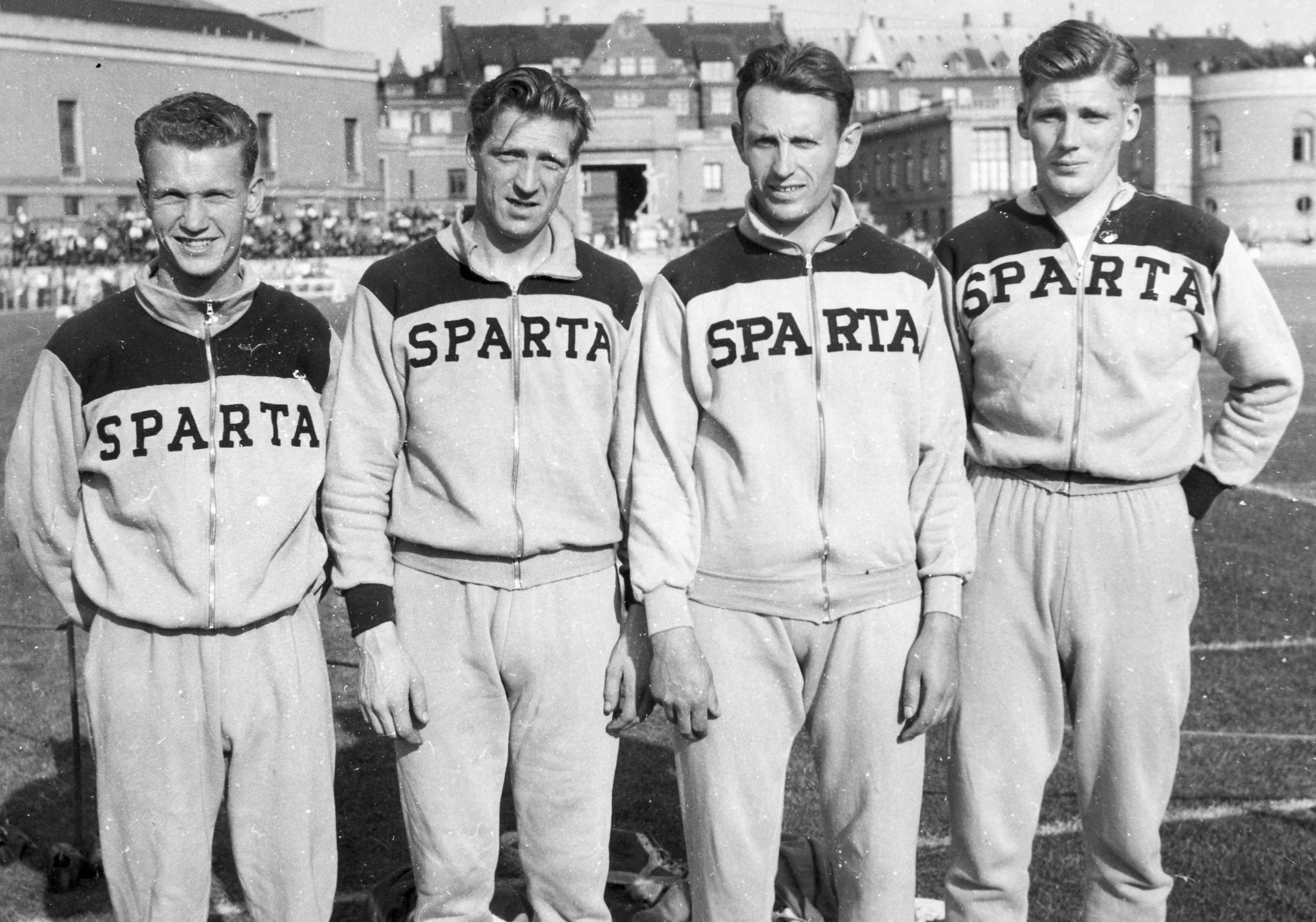 Danish 4×100 m champions at the Østerbro Stadion. Left-right: Jørgen Nielsen, Otto Rosenvard, Helmuth Duholm and Benny Schmidt.